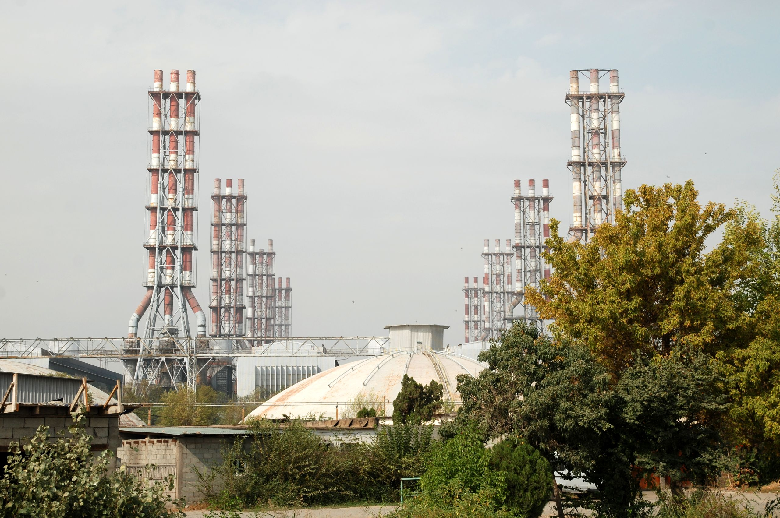 Tursunzoda, Talco